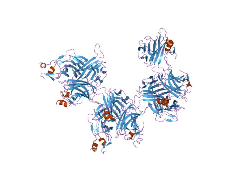 Cartoon representation of the molecular structure of protein registered with 1oqd code.